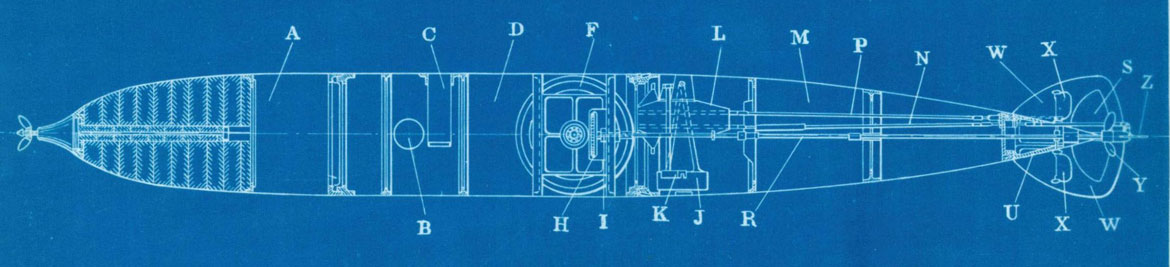 Howell torpedo general longitudinal section from US Navy manual published 1896. A head. B depth-register pocket. C calcium-phosphide pocket. D middle-body. F fly-wheel. H shaft-gears. I gear-shafts. J horizontal-rudder pendulum. K vertical-rudder pendulum. L impulse-mechanism. M after-body. N horizontal-rudder tiller-rod. P vertical-rudder tiller-rod. R propeller-shaft. S tail. U tail-cone. WW top and bottom blades. XX vertical-rudder. Y propeller. Z horizontal-rudder.